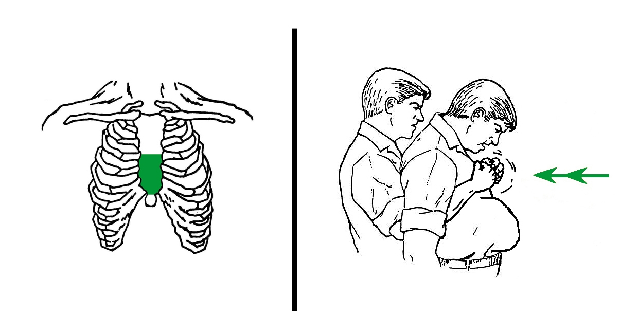 The chest thrusts anti-choking maneuver. It shows the point of applying on sternum (breastbone).